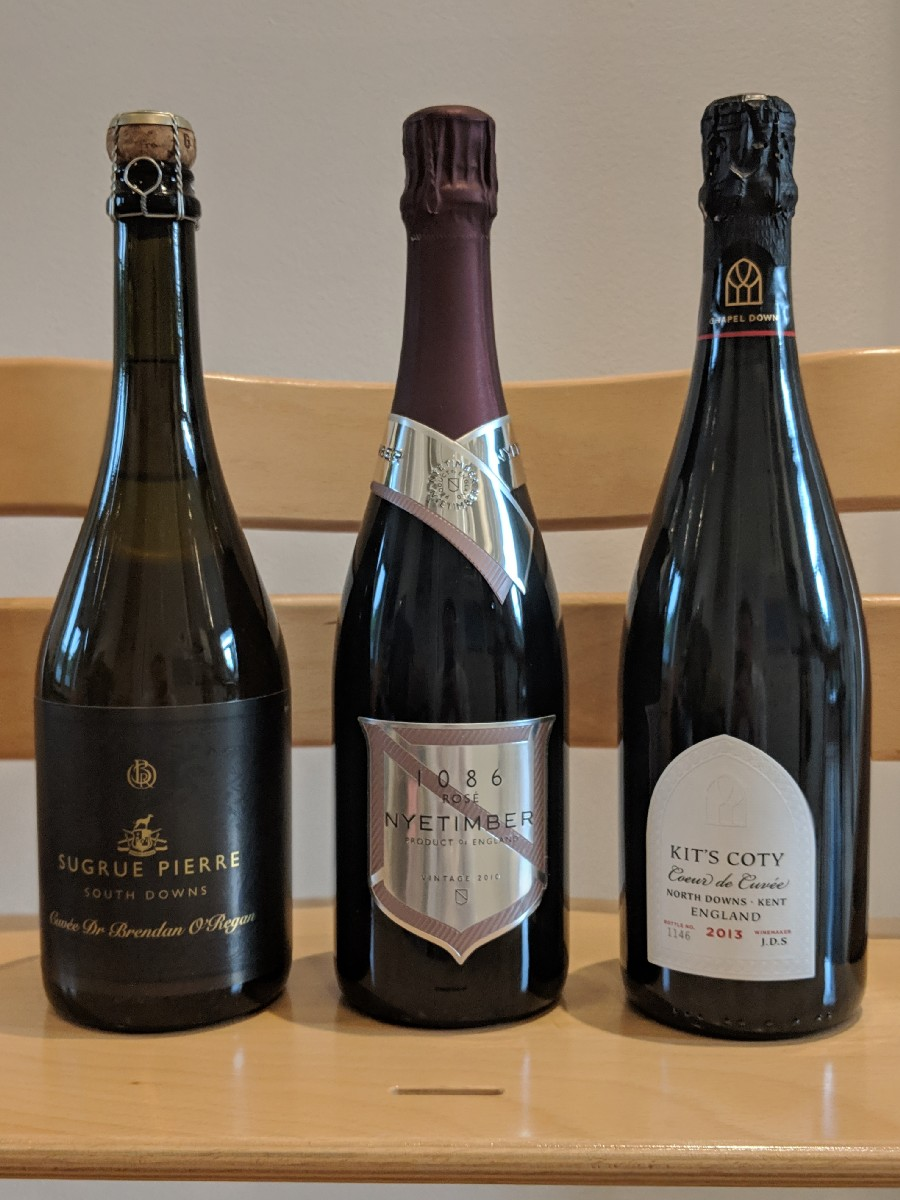 Bottles of prestige cuvees from three English sparkling wine producers: Nyetimber 1086, Chapel Down Kit's Coty Coueur de Cuvee and Sugrue Cuvee Dr Brendan O' Regan.